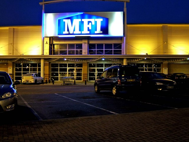 MFI Kidderminster - will the last person to leave, please turn off the lights? MFI the well-known furniture retailer is in administration and is thought unlikely to be rescued as a going concern. But their large shop on the Crossley Retail Park, off Carpet Trades Way, in Kidderminster, shut its doors to the public in September 2008. Most of the stock has gone and the doors are firmly shut, but despite this over two months later the lights over the entrance door are still burning brightly. Whoever benefits from this it certainly isn't the environment or the creditors.